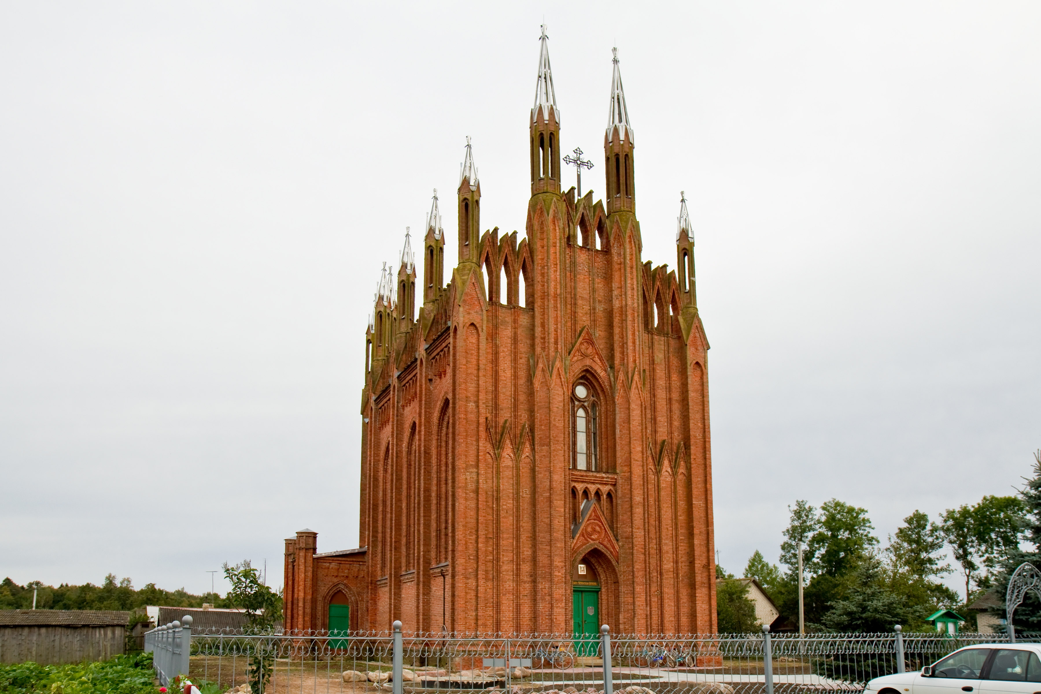 Catholic church or Sarja. Former Catholic church of the Blessed Virgin Mary. Now Church of the Assumption. Sarja village, Vierchniadźvinsk district, Viciebsk province, Belarus.